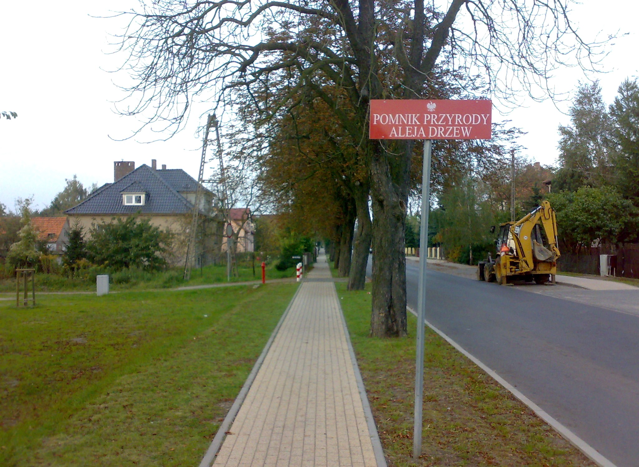 Omankowskiej Street, Poznan.